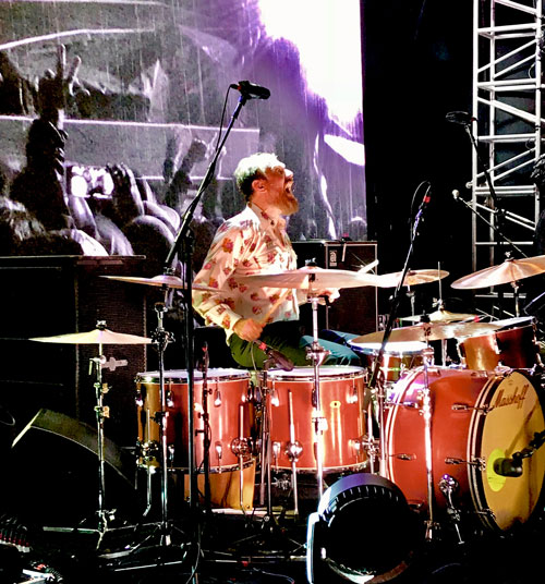 Jim Sclavunos, drummer best known as part of Nick Cave and the Bad Seeds, and Grinderman performing live in 2018